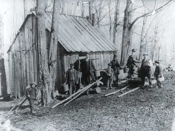 Photograph, Sugaring off party, Pied de Piedmont, QC, about 1895, Anonymous, Silver salts on paper - Gelatin silver process - 12 x 17 cm